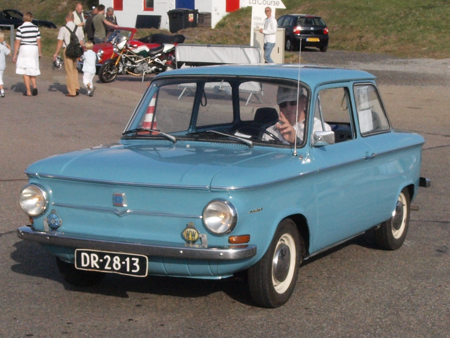 Photographed at the Nationaal Oldtimer Festival Zandvoort 2009, The Netherlands. OLYMPUS DIGITAL CAMERA